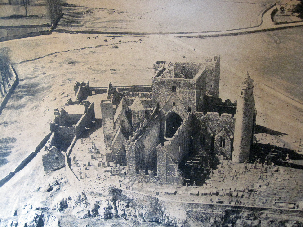 Aerial view of Rock of Cashel, circa 1970, prior to any modern work Author David Lippincott for Chassis Plans URL: This is a photograph of a state sponsored photograph displayed at the site.